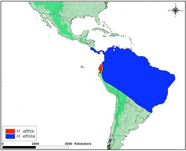 Heliconius ethilla Heliconius atthis range map